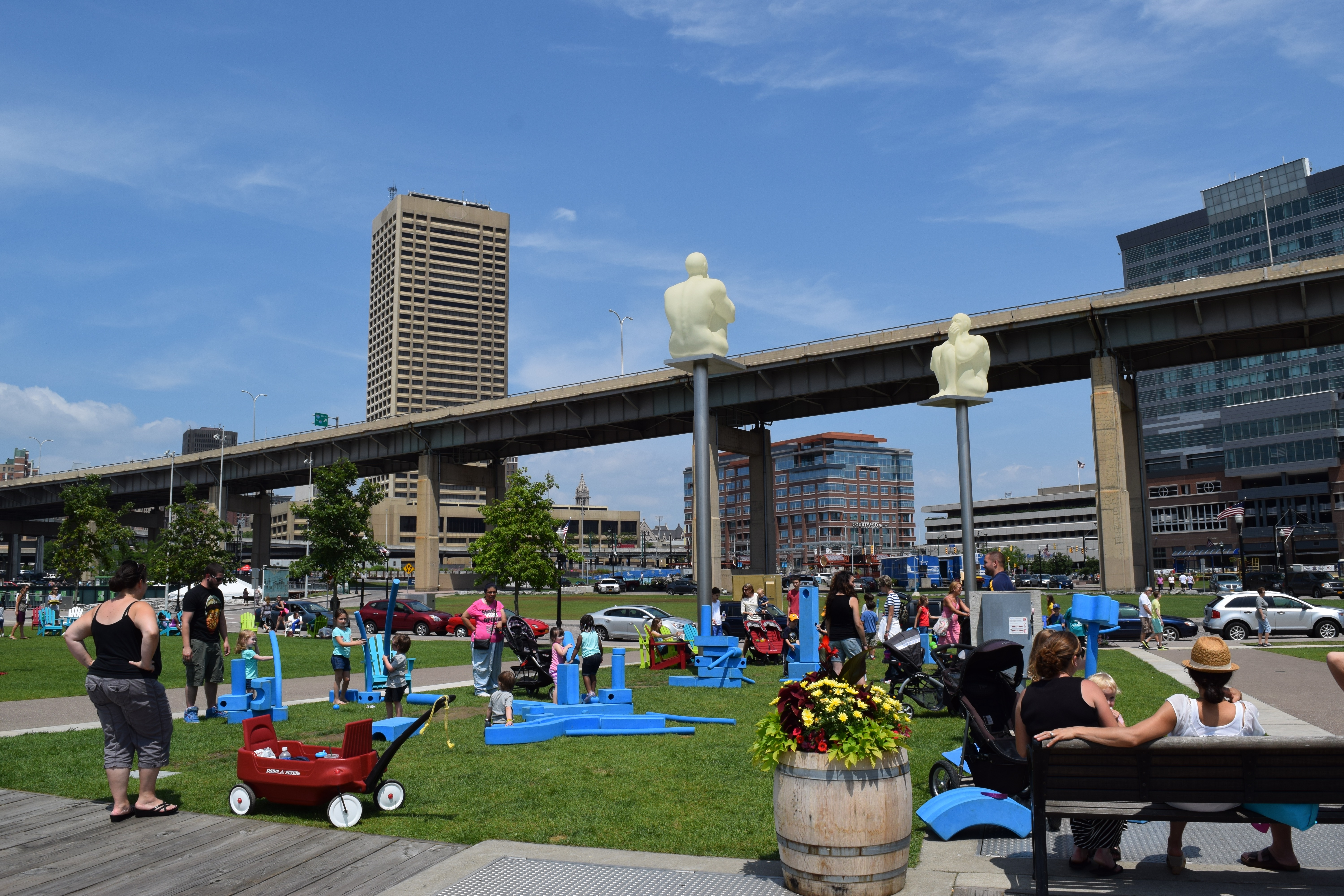 Image of Canalside Buffalo